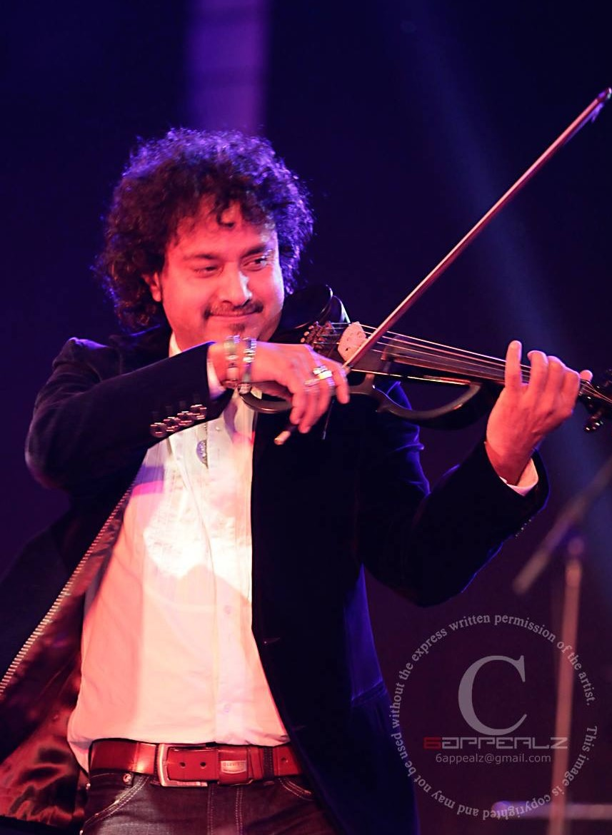 Manoj George-Famous Indian Violinist